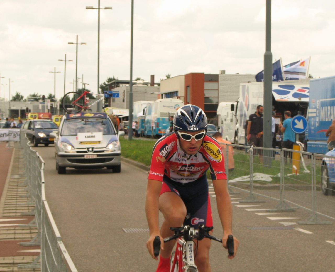 Koen Barbé during the time trial of the 2007 Eneco Tour. Sittard-Geleen, August 29, 2007.